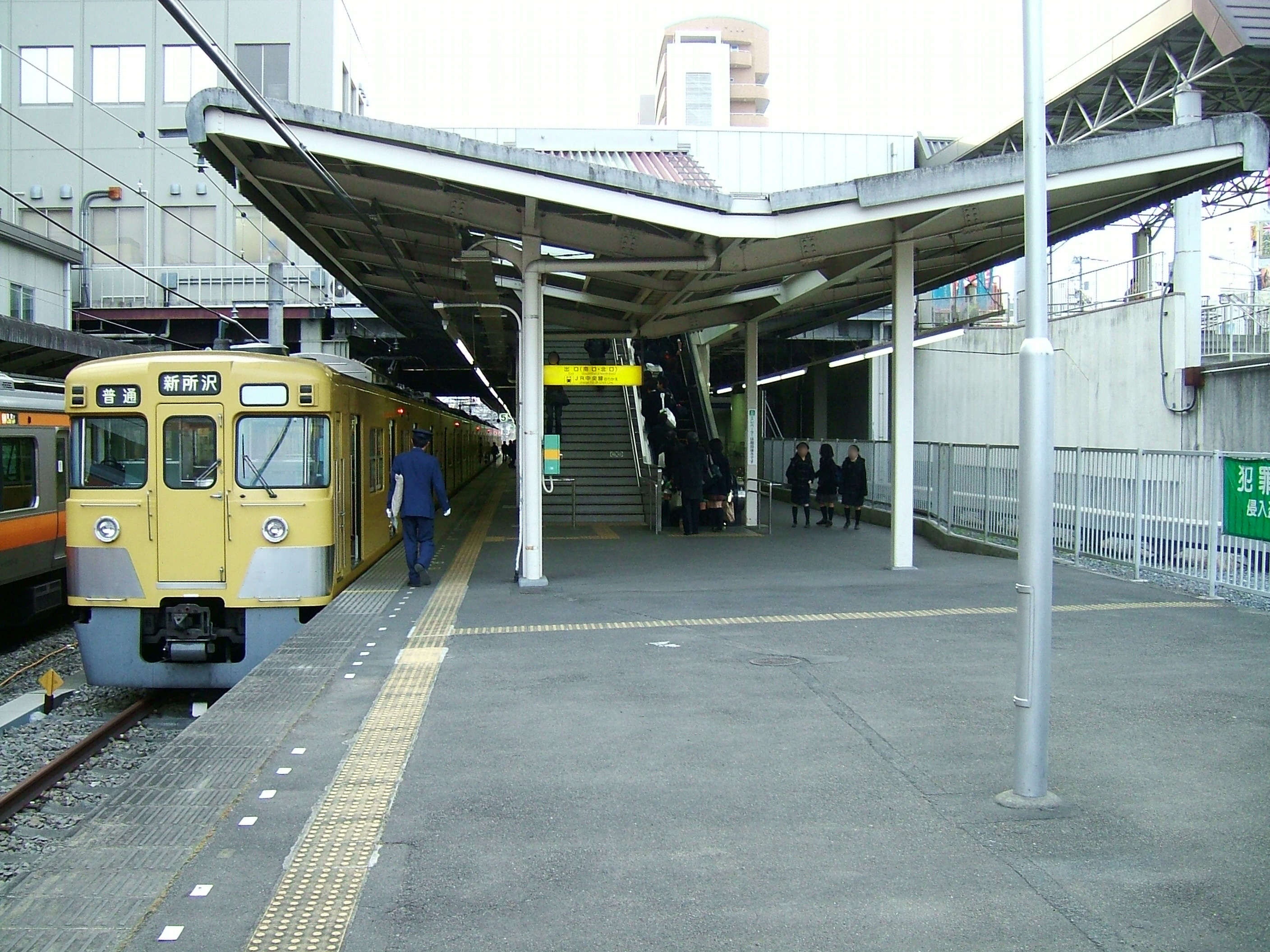 Kokubunji Station platform (Seibu Kokubunji Line)